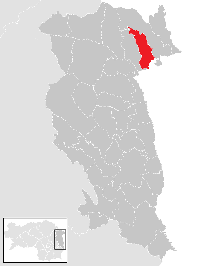 district Hartberg-Fürstenfeld